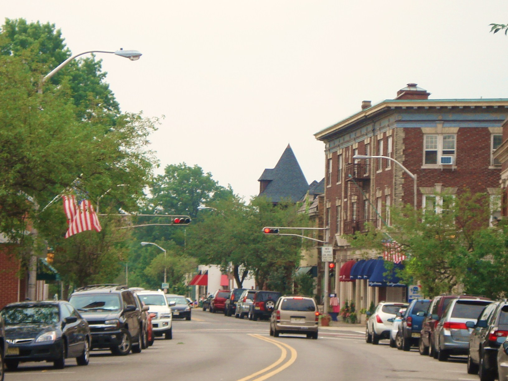 Depicted place: Upper Montclair